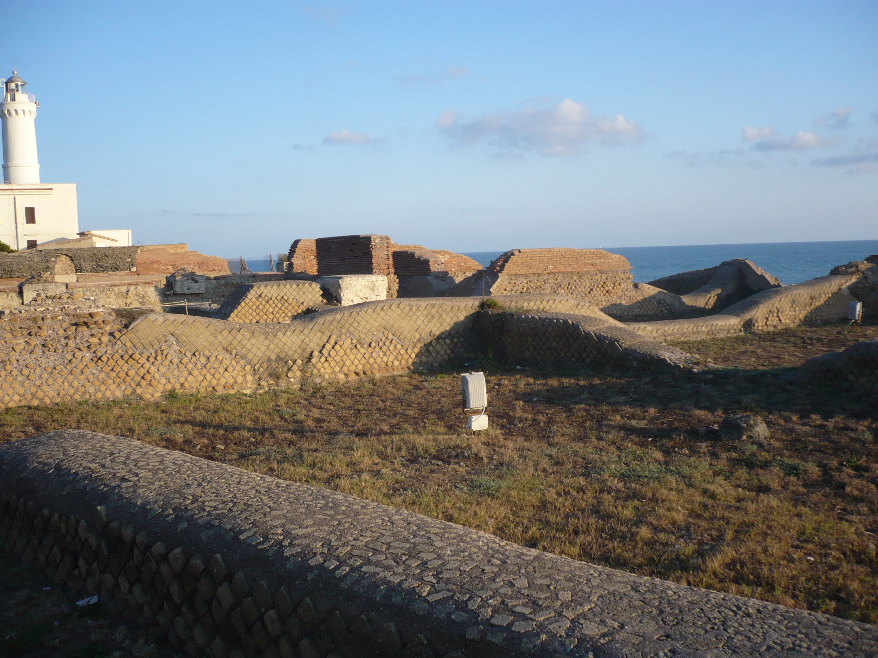 Ruins of the Domus Neroniana, Anzio